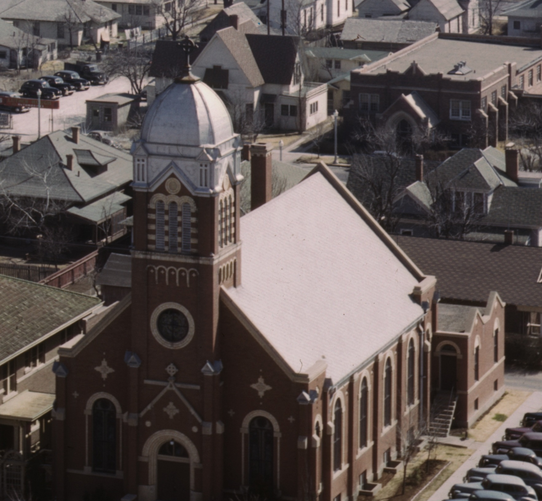 Sacred Heart Cathedral was at the northeast corner of Ninth Avenue and Tyler Street in Amarillo, Texas.